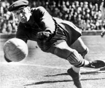 Sven ”Svenne Berka” Berqvist, goalkeeper (1914-1996)